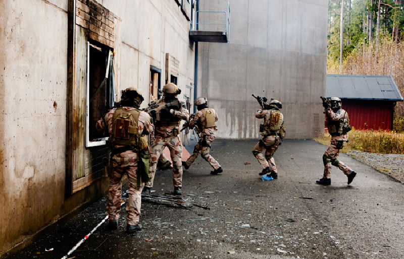 Swedish special forces